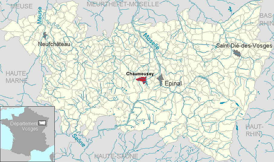 Chaumousey in the department of Vosges, Lorraine, France